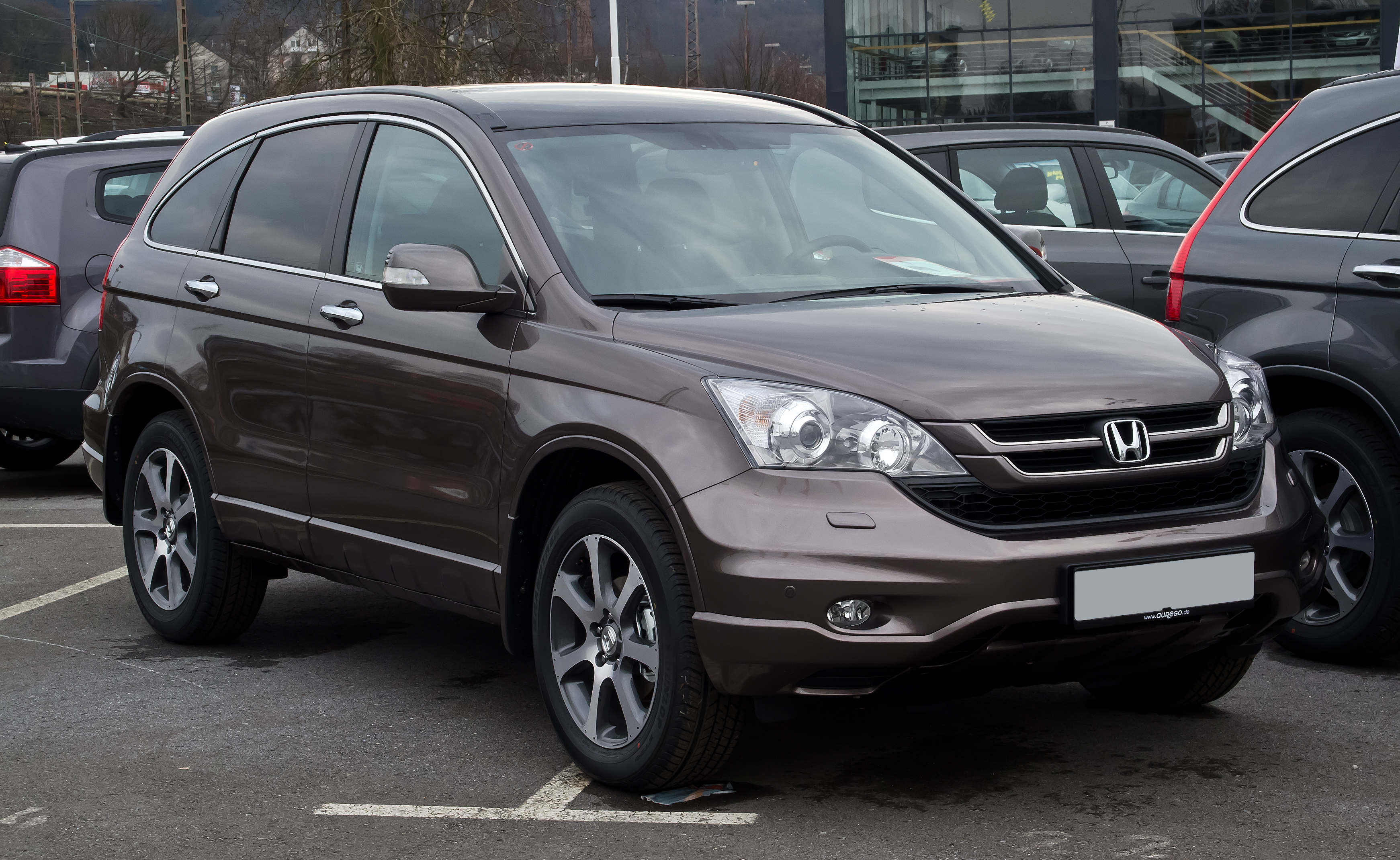 Honda CR-V 2.2 i-DTEC Executive 50 Jahre Edition (III, Facelift)